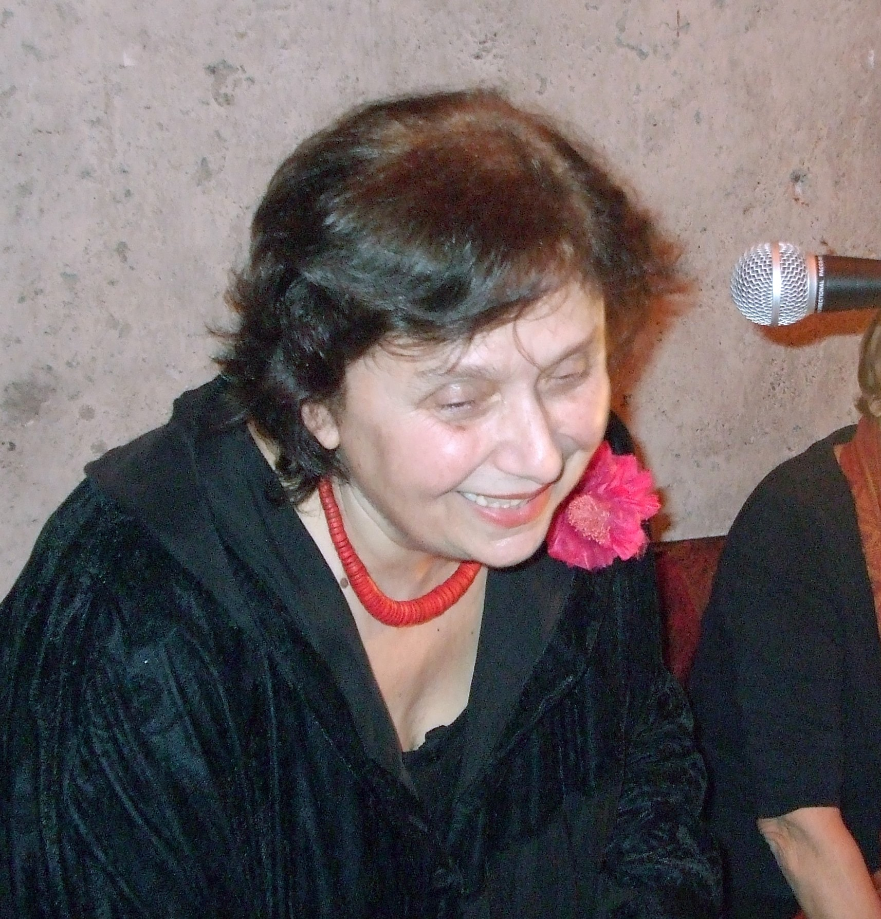 Rumjana Zacharieva reading at Café Prag, Mannheim, Germany